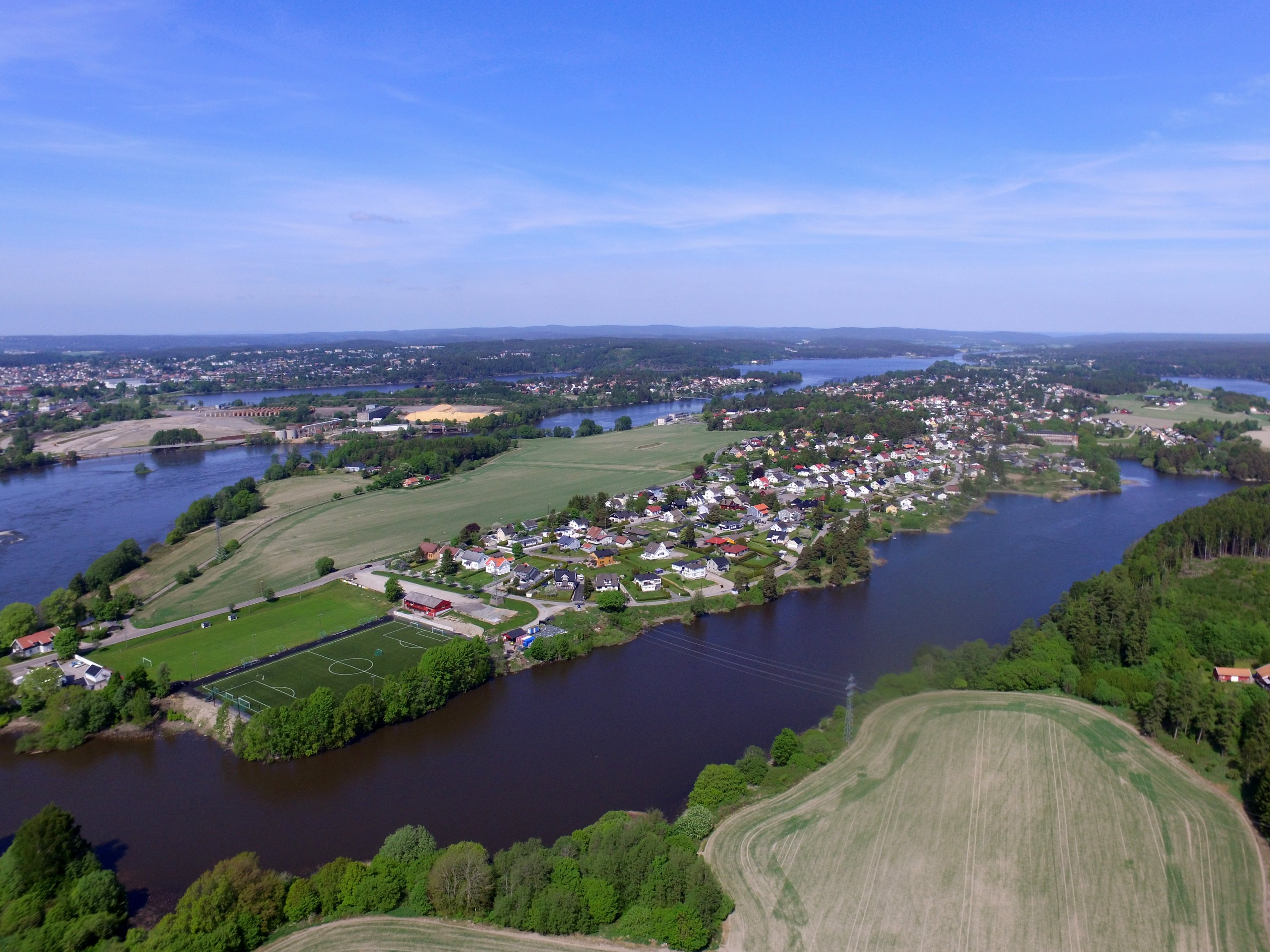 Hafslundsøy, Sarpsborg from the south. Main arm of the river Glomma runs on the left in the picture.